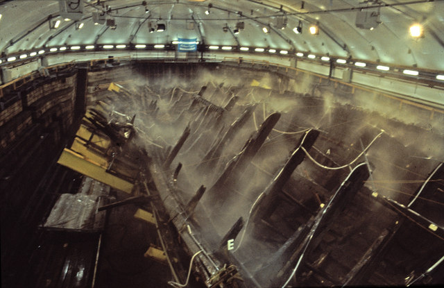 The Tudor period carrack Mary Rose being sprayed with water to keep her timbers from drying out. Historic Dockyard, Portsmouth, Hampshire. View looking towards the stern.